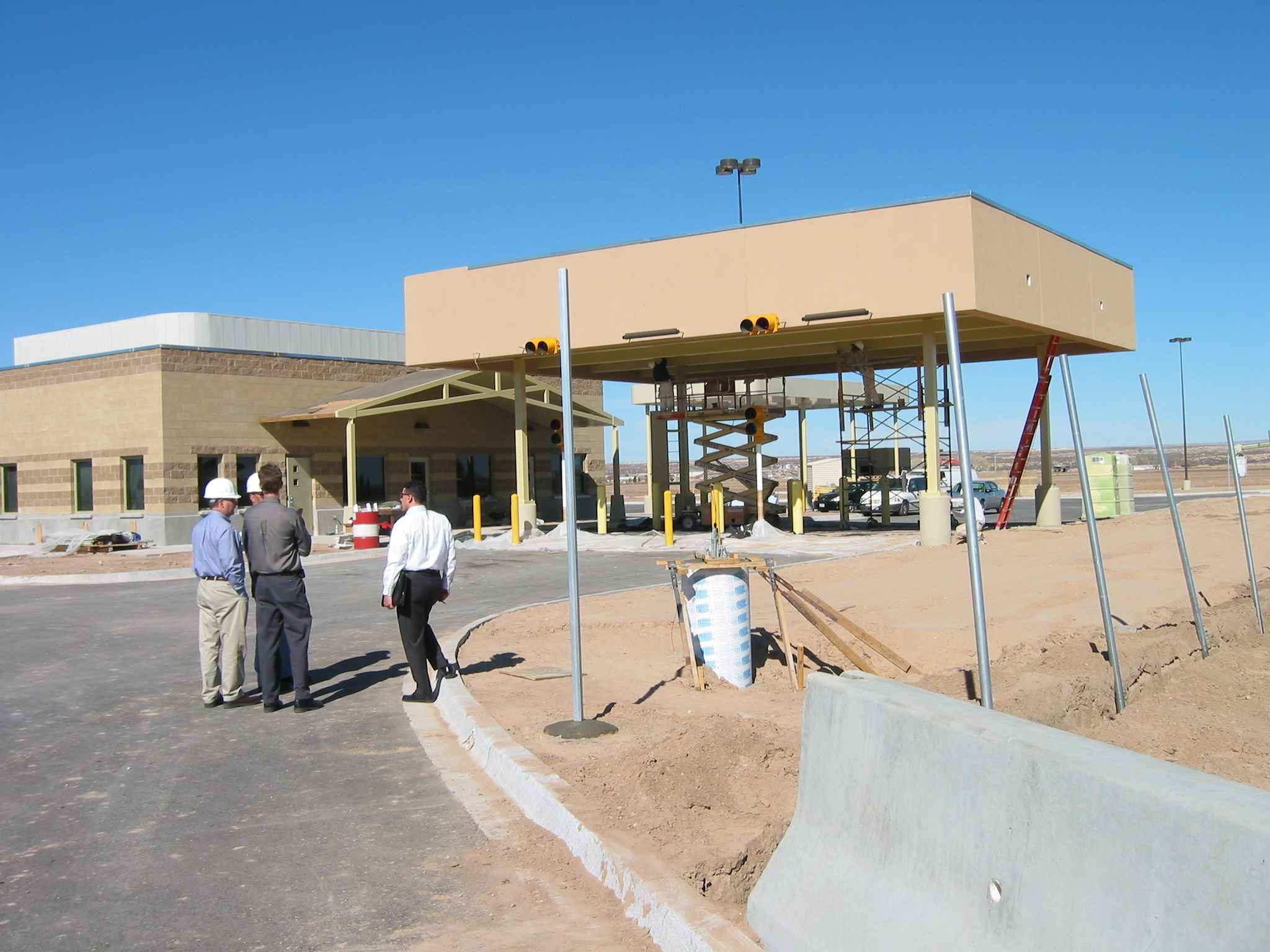 Fort Hancock port of entry during construction in 2003